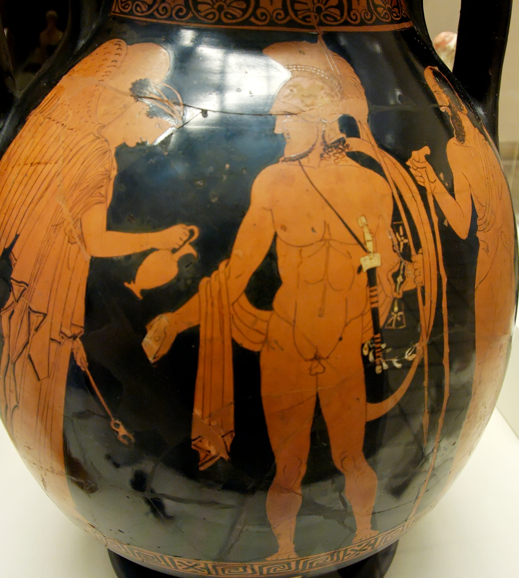 Nike (left) pours a libation to Trojan hero Lykaon (centre) about to depart to war while his father (right) watches. Side A from an Attic red-figured amphora, ca. 440. From Nola, Campania.